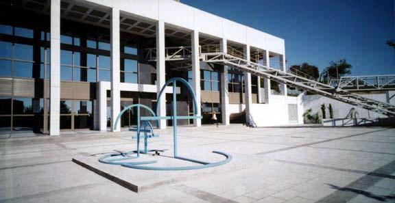 View from outside, image from the Tellogleion Foundation, Thessaloniki, Central Macedonia, Greece